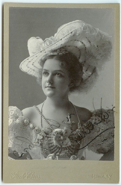 Della Fox, c. 1891